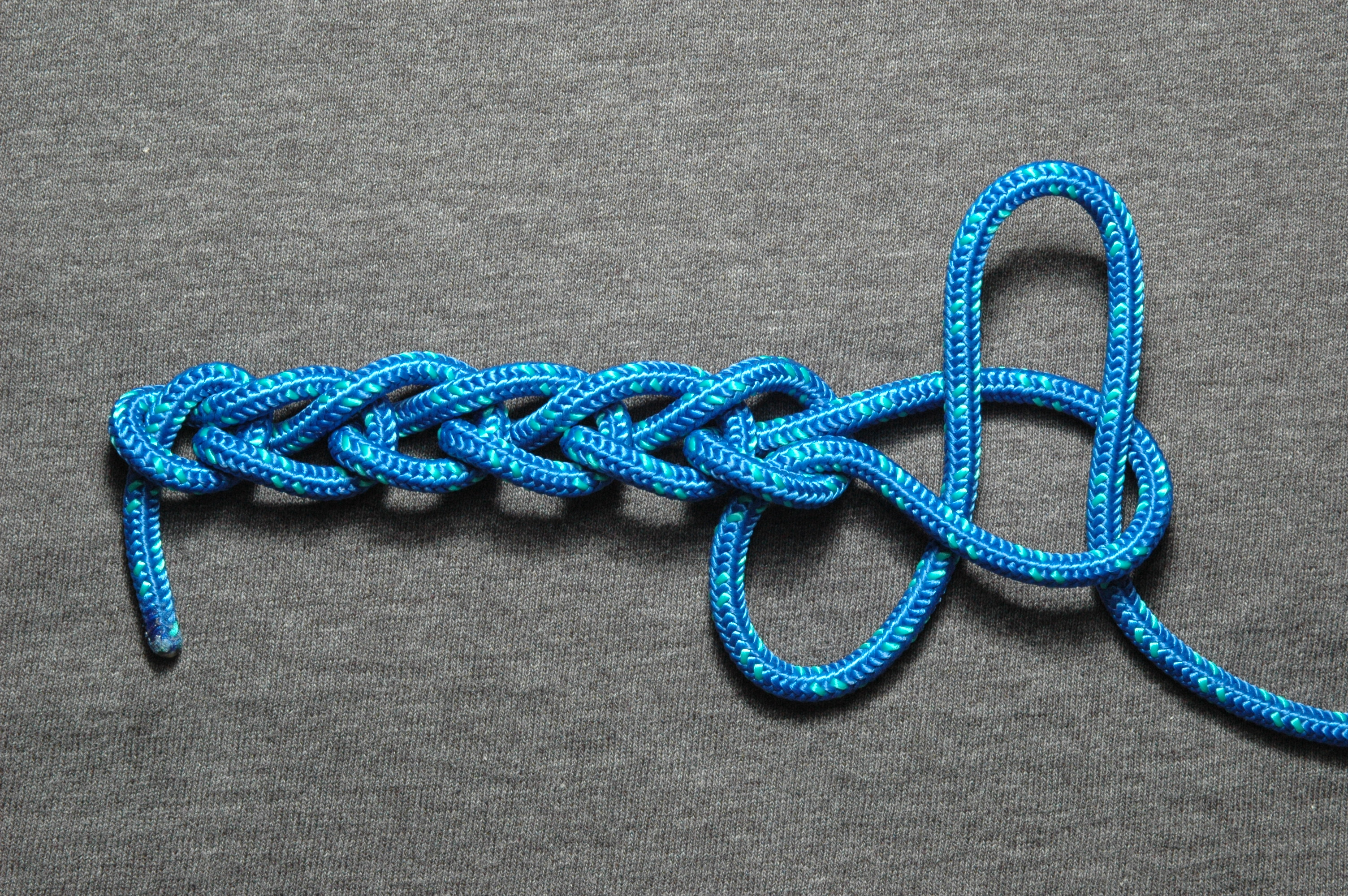 Chain sinnet (ABOK #1144) in process of being made.